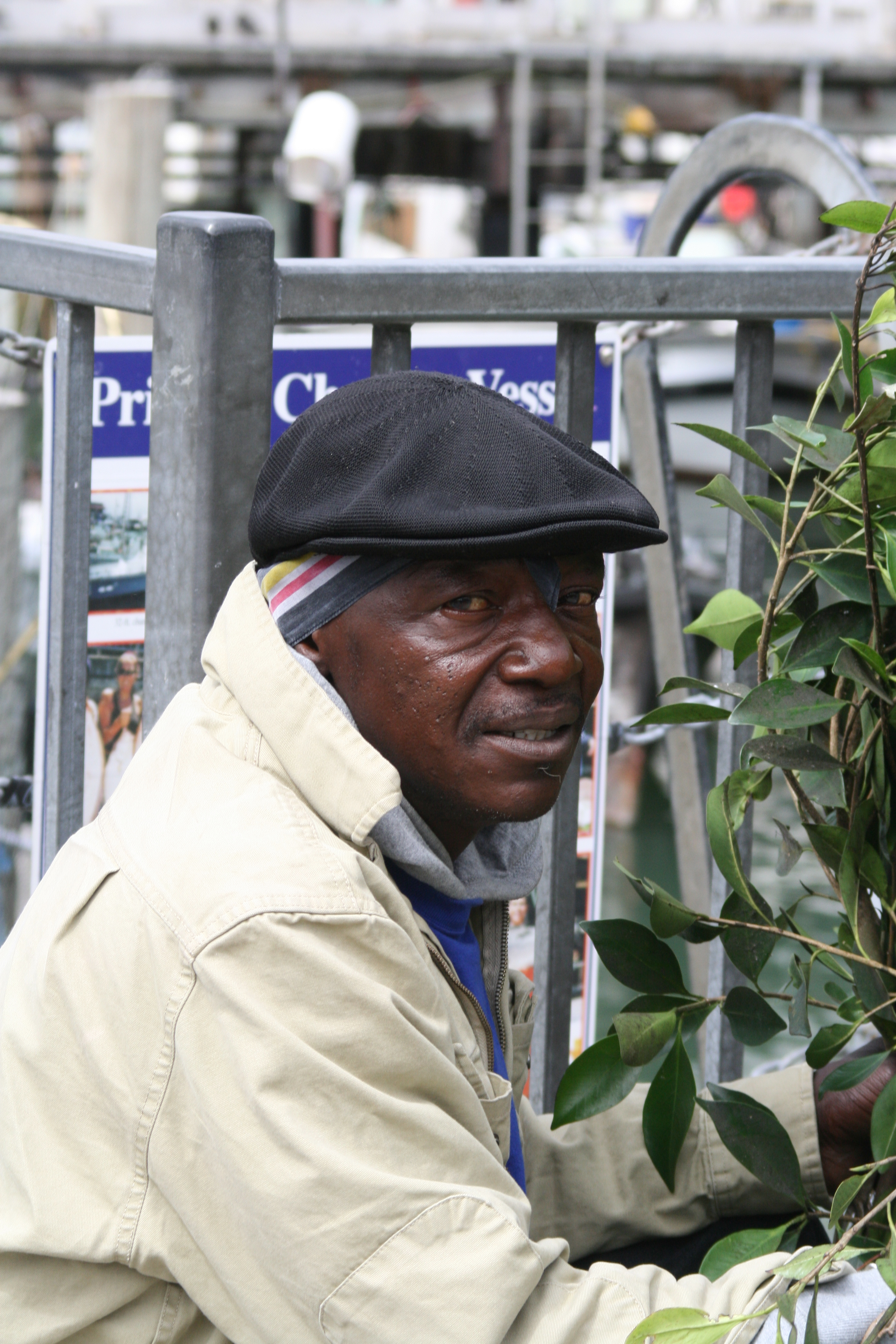 The world famous Bushman, at work near Fisherman's Wharf.